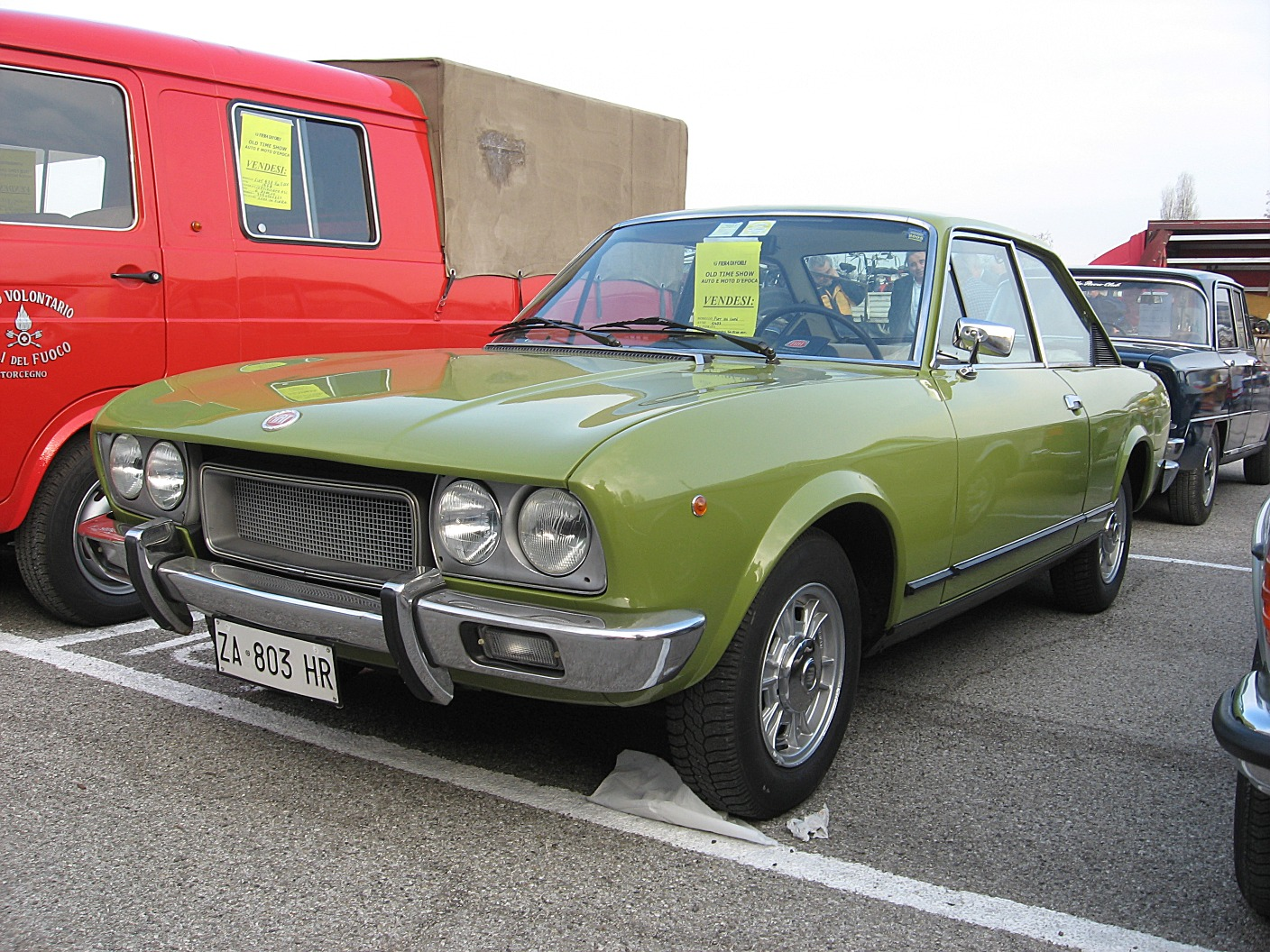 Fiat 124 Sport Coupé Mk. 3Old Timer Show 2008. Forlì, Italy